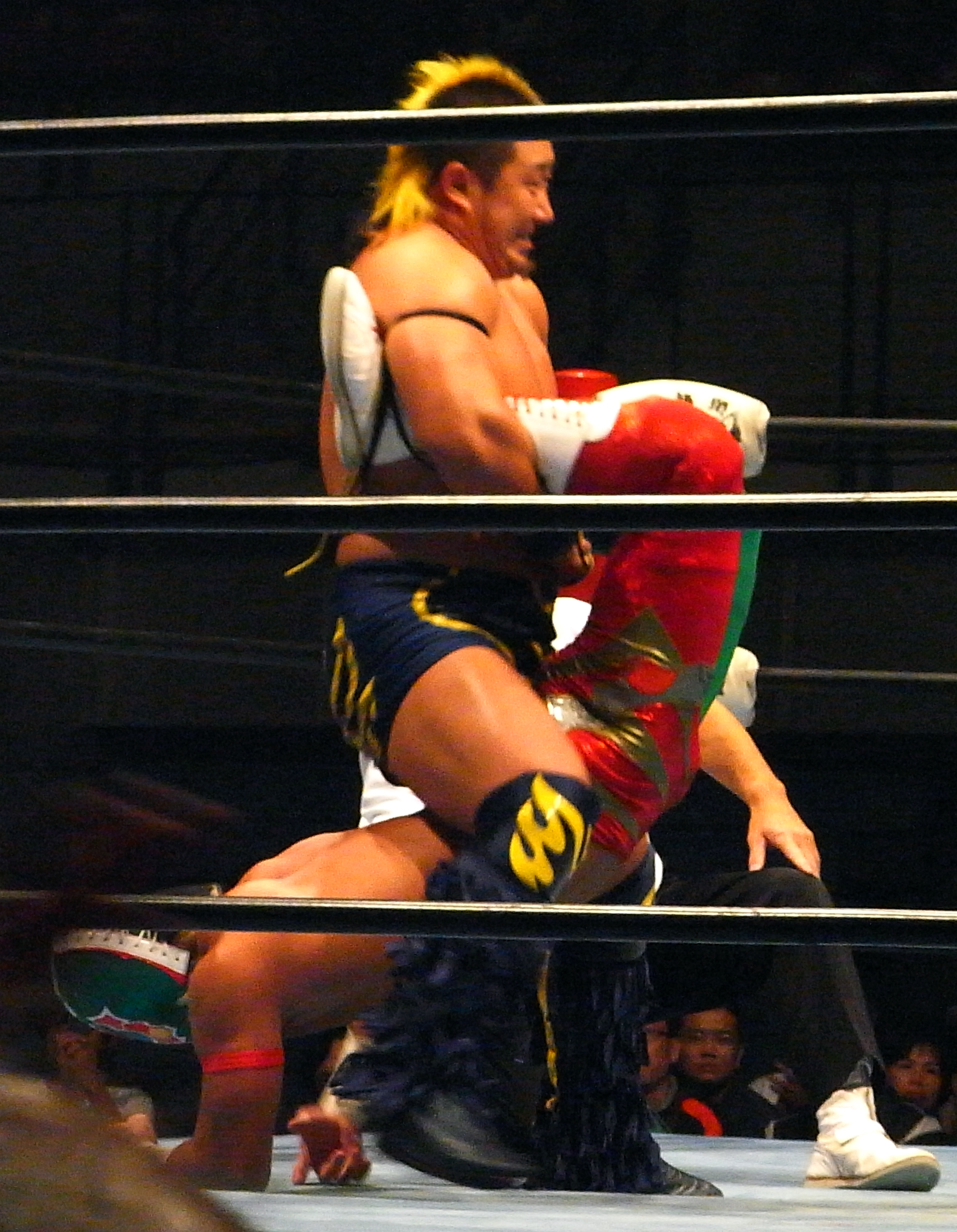 Shuji Kondo at AJPW "Pro-Wrestling Love in Taiwan 2010", the National Taiwan University Gymnasium, Taipei.